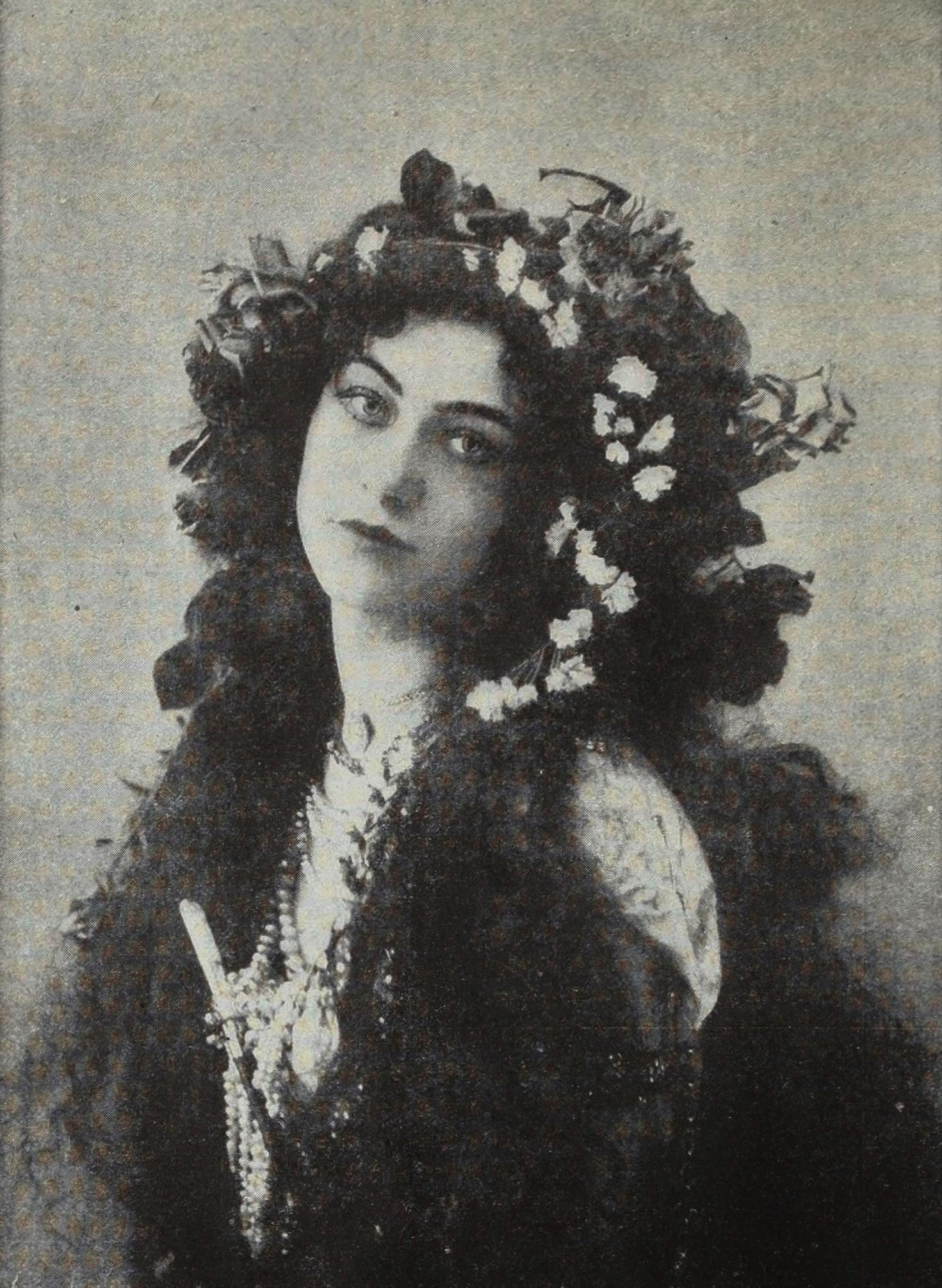 Portrait of Corona Riccardo